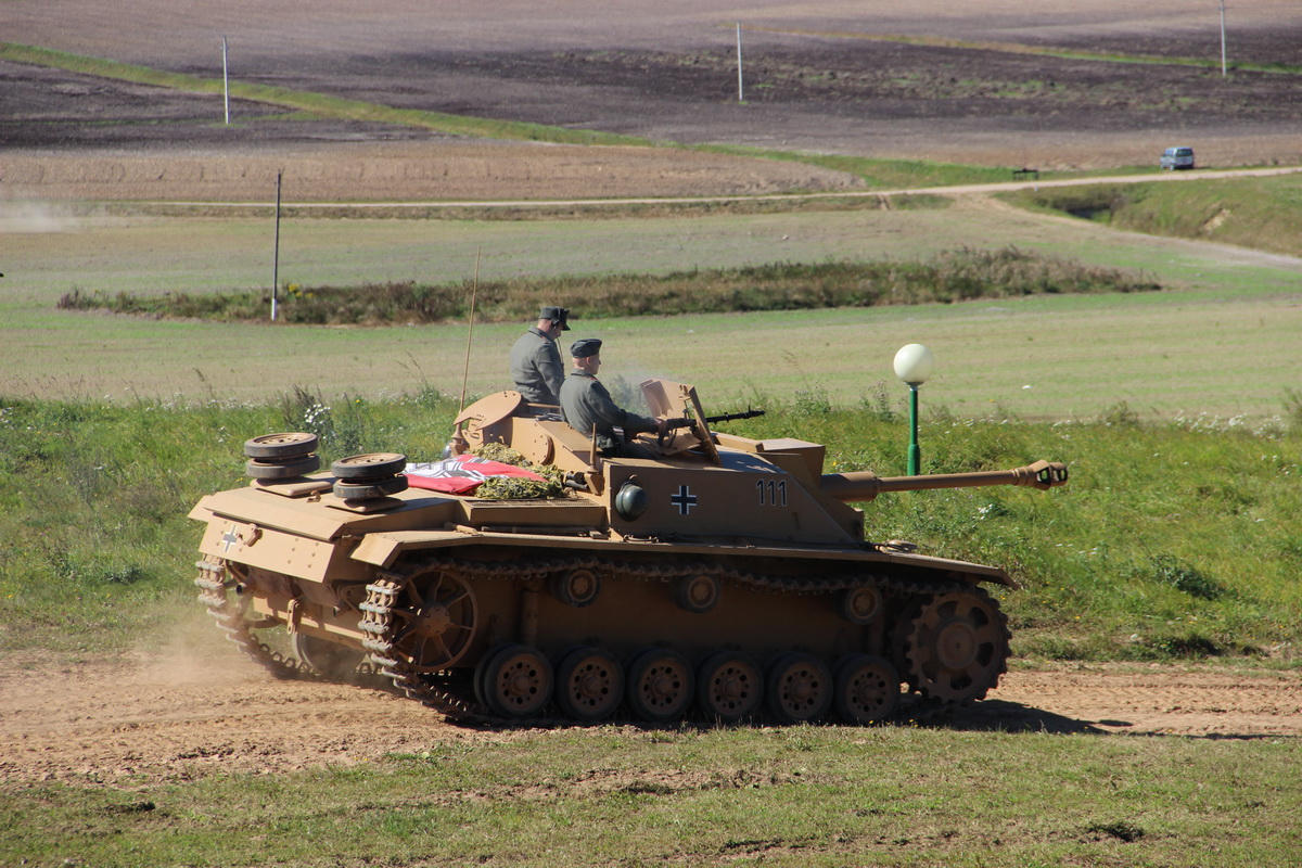 Stug III in "Linija Stalina" near Minsk, Belarus